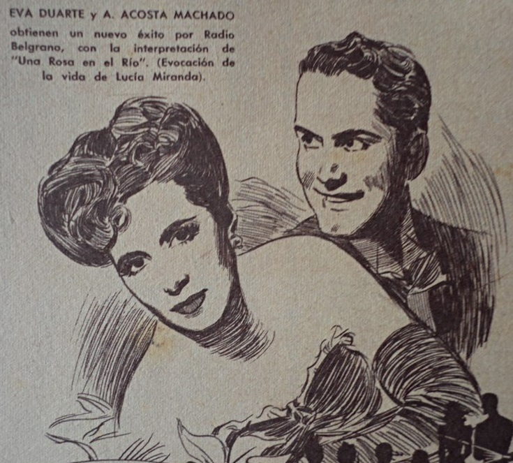 Eva Perón y Américo Acosta Machado